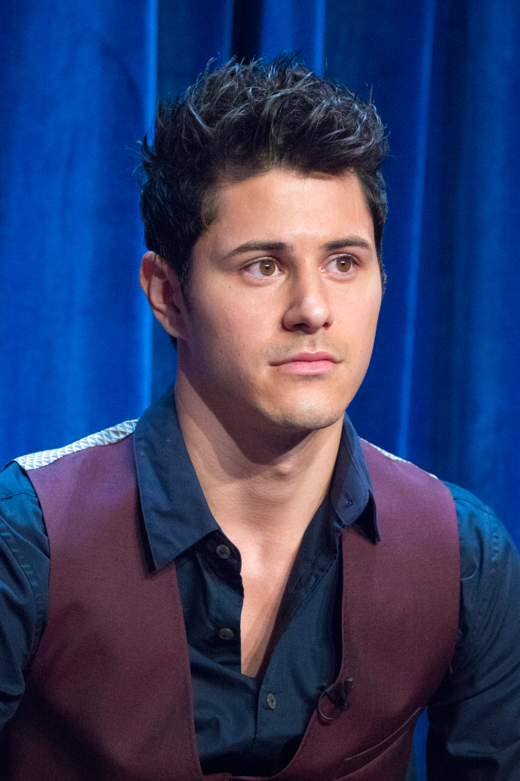 Michael J. Willett at the 2014 PaleyFest Fall TV Premiere presentation for MTV's "Faking It"